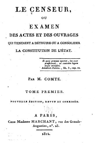 Cover of Le Censeur - used in the article Le Censeur